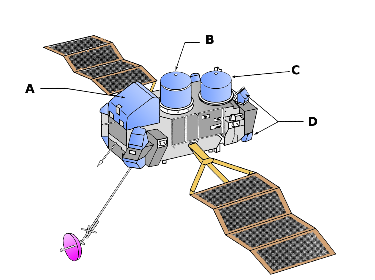 CGRO Cartoon with Labels